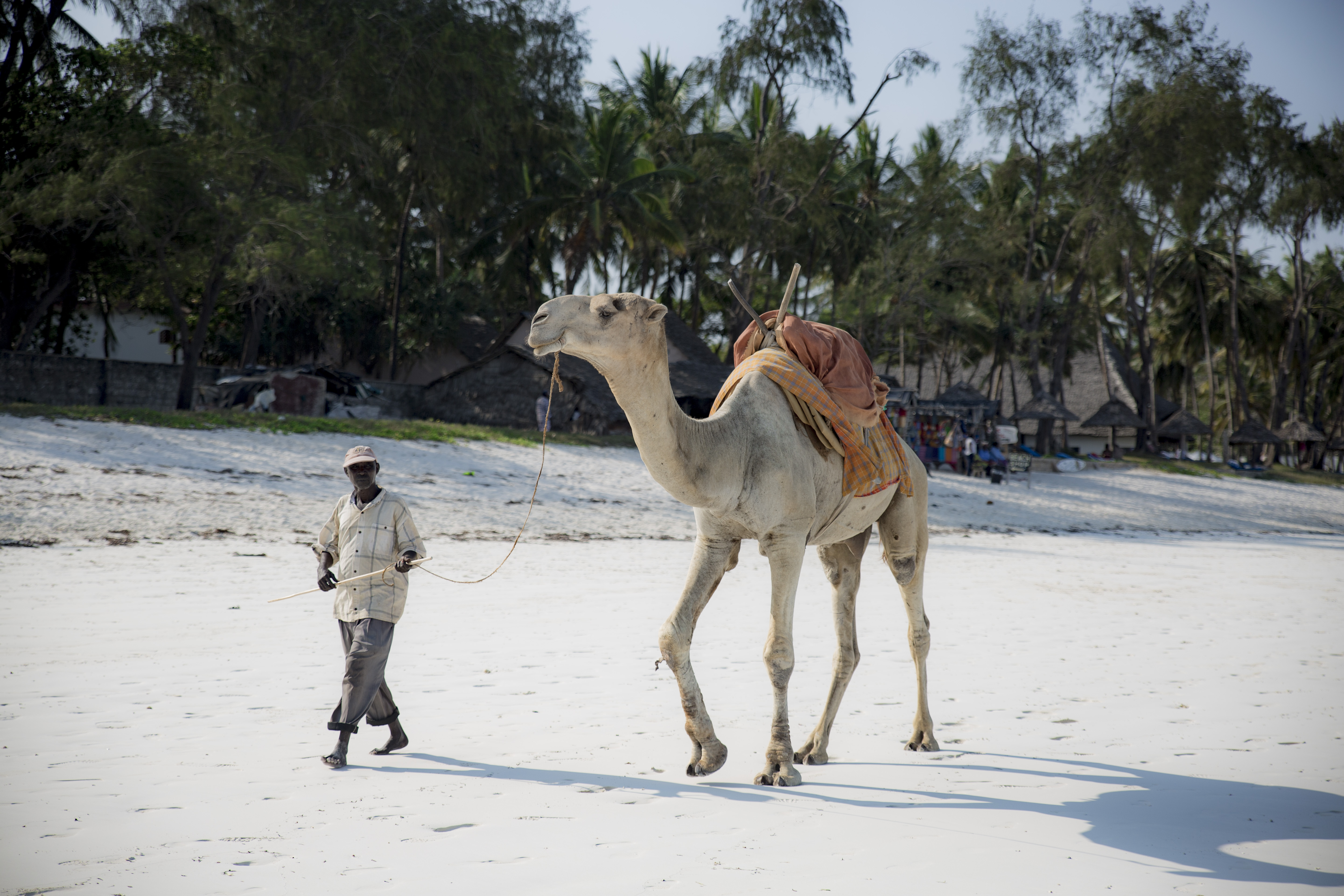 This is an image with the theme "Africa on the Move or Transport" from: Kenya